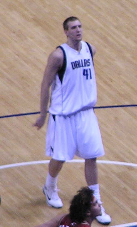 Dirk Nowitzki at the free-throw line